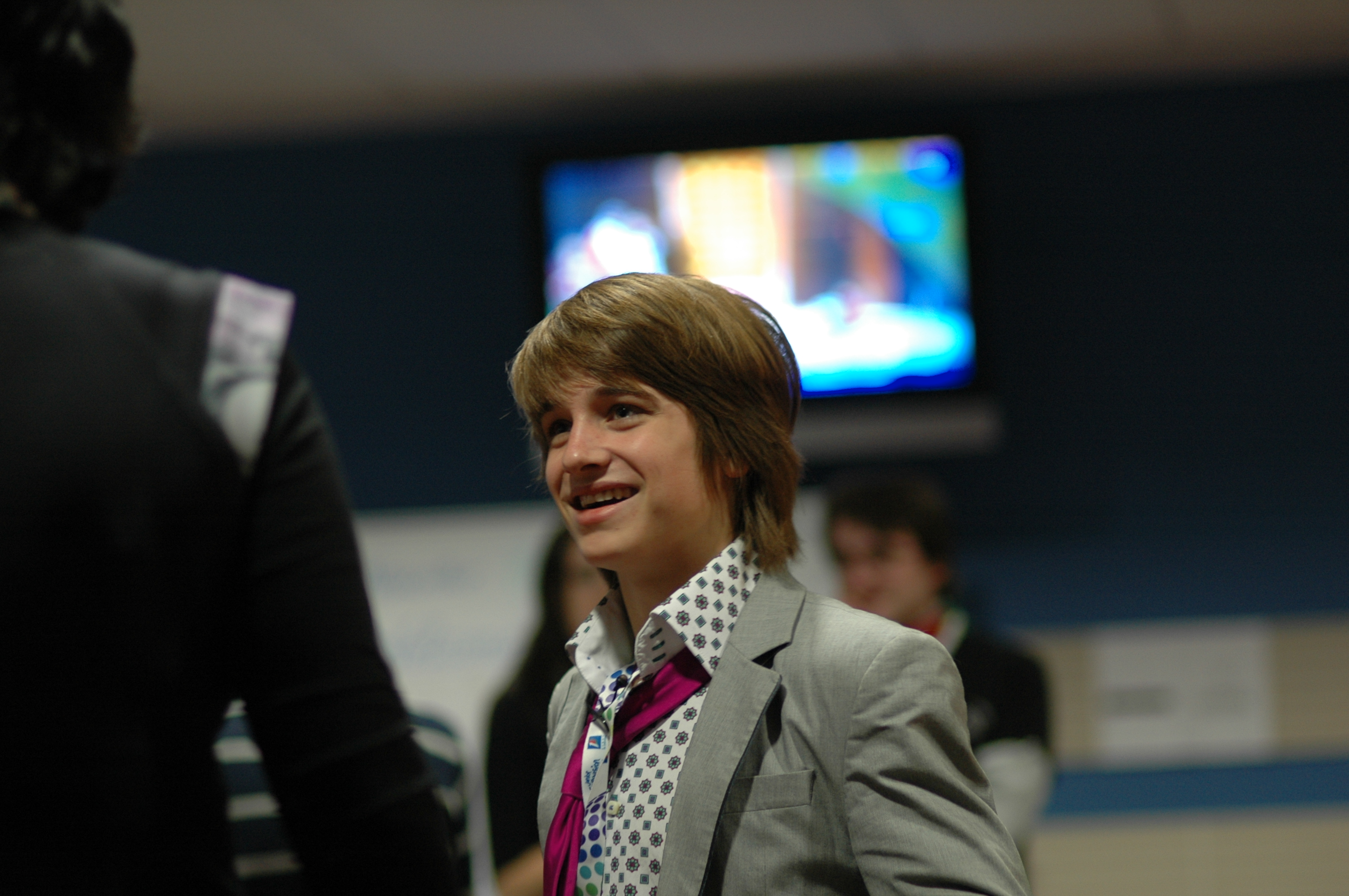 Ralf Mackenbach at Junior Eurovision Song Contest 2010